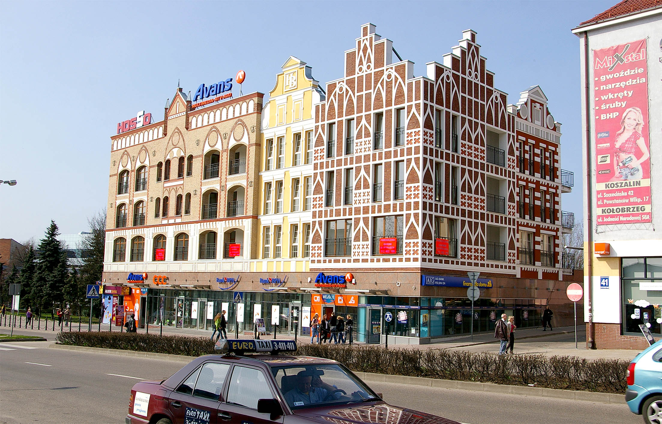 Modern buildings in Koszalin, Polen.